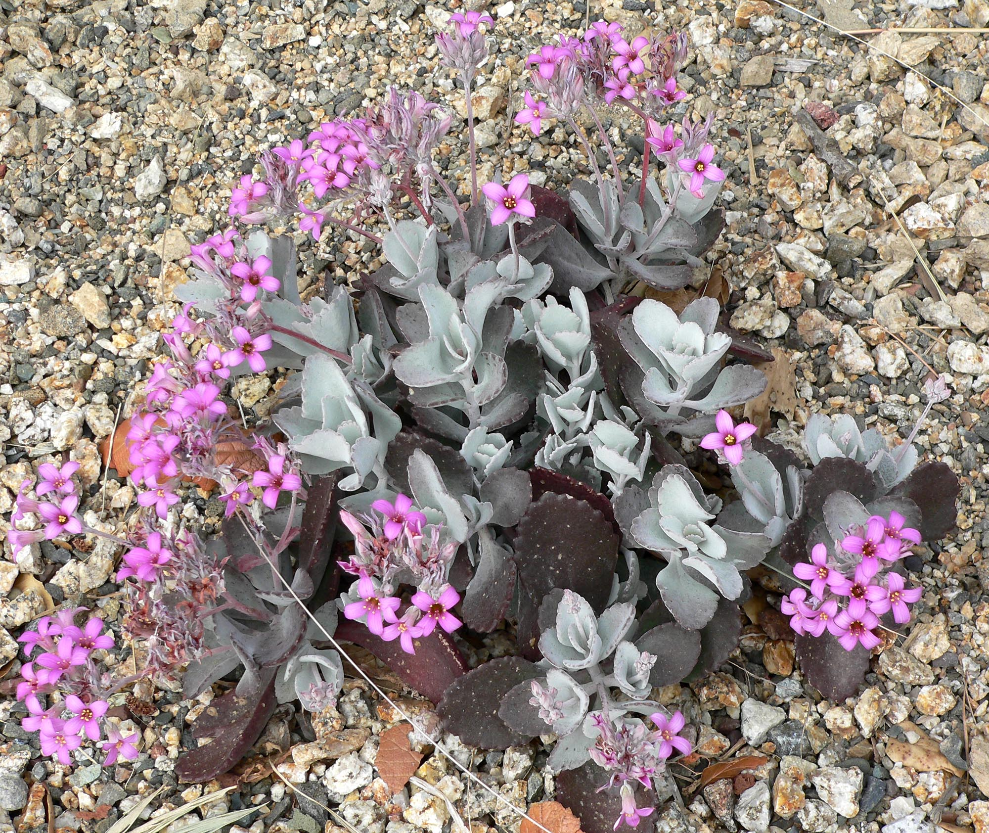 Photo of Kalanchoe pumila at the University of California Botanical Garden